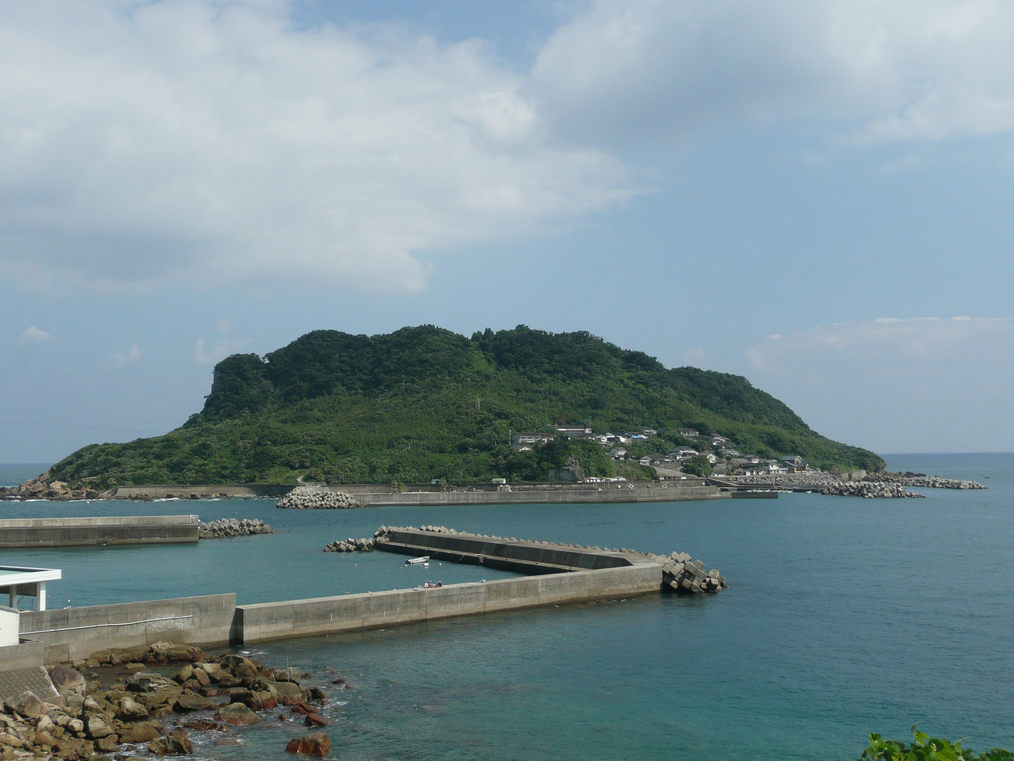 Tsukishima Island (Kushima City, Miyazaki, Japan)